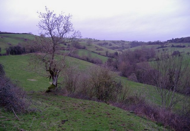 St Catharine's valley, Gloucestershire, looking north